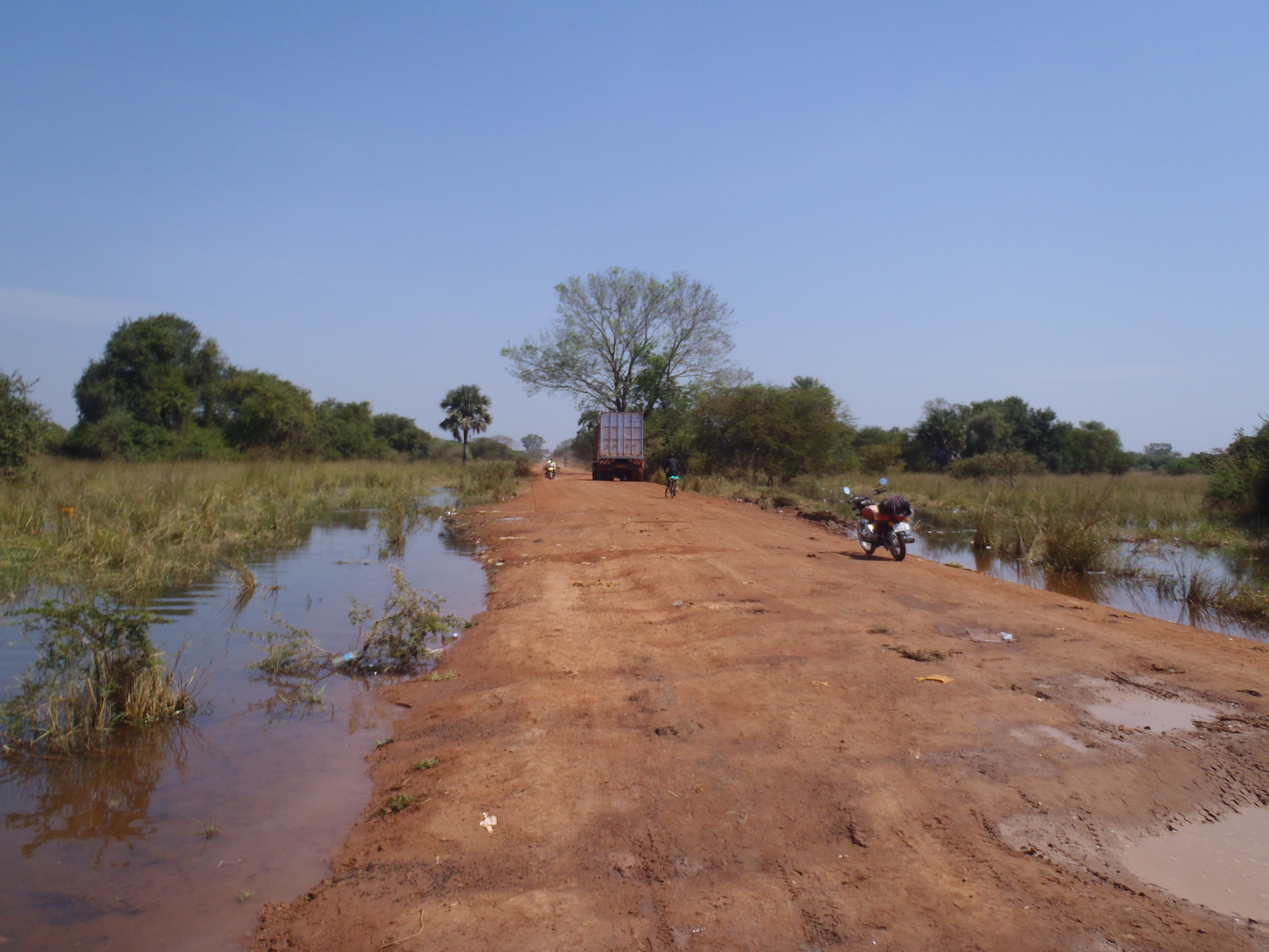 Taken while driving from Rumbek to Yirol. Just outside Yirol Town at the beginning of the dry season.